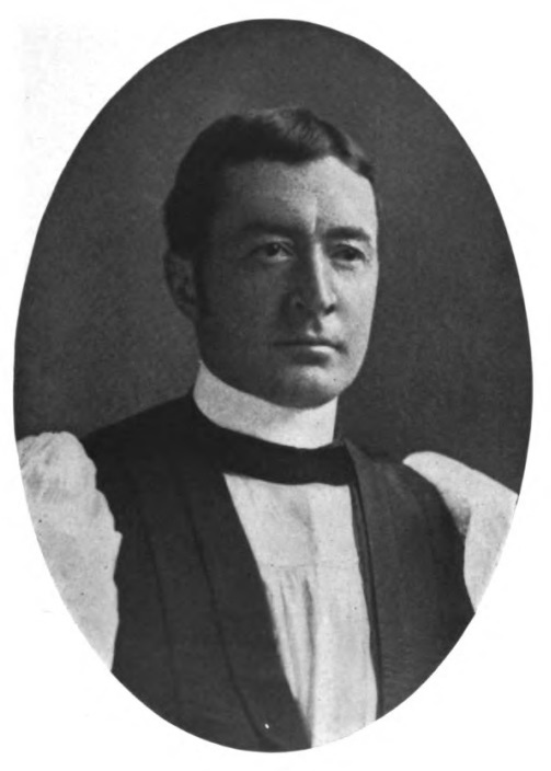 The Rt. Rev. Luien Lee Kinsolving, first Episcopal Bishop of the Church of Brazil. Seat on the House of Bishops by courtesy, but no vote.